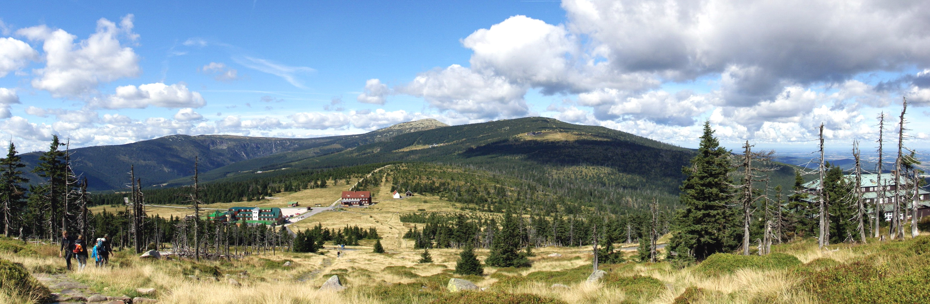 Panorama of Przełęcz Karkonoska